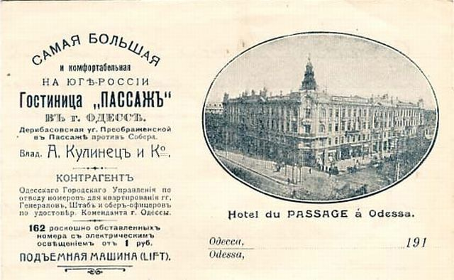 Letter cover with advertising information about Passage Hotel in Odessa c. 1910-s